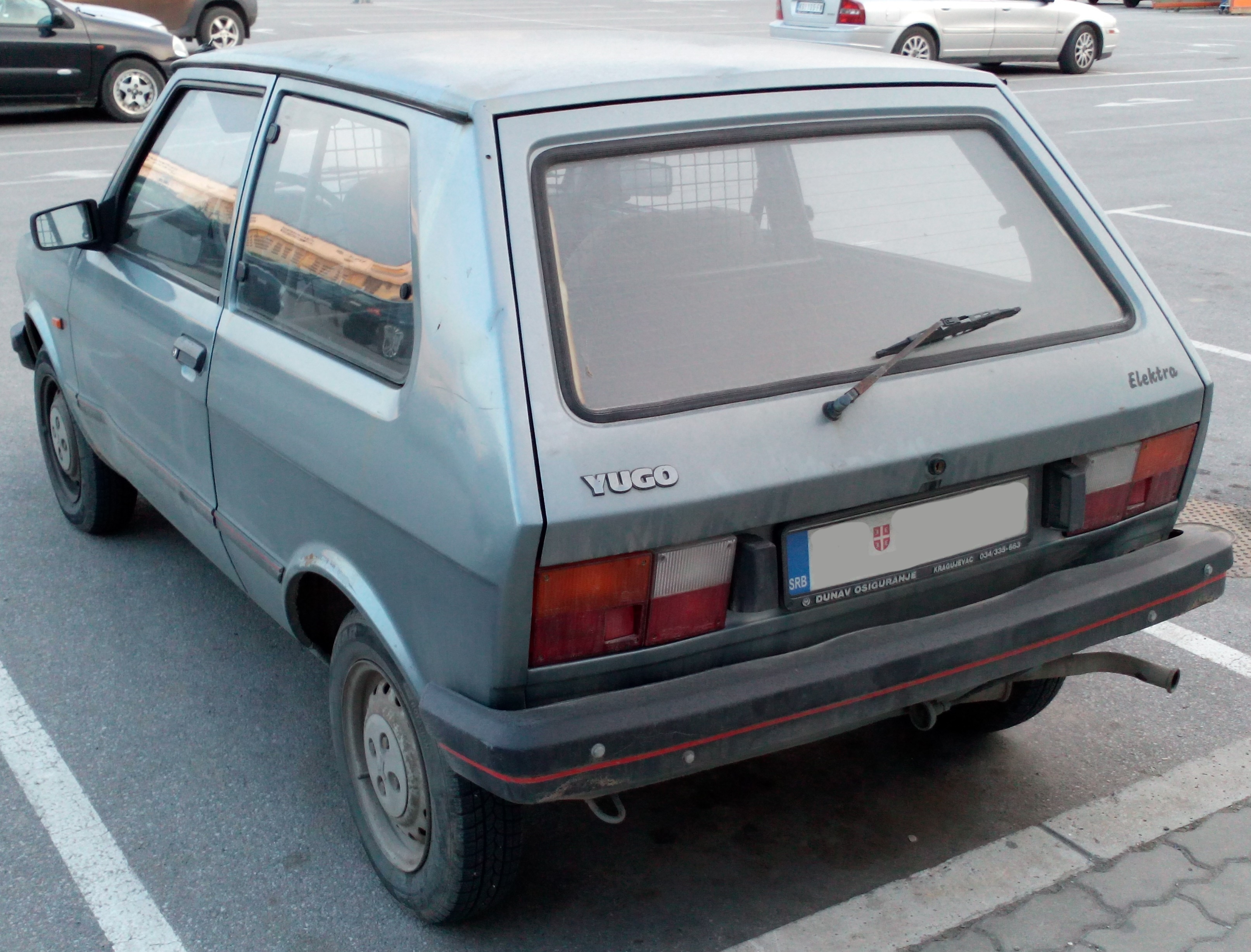 Yugo Elektra seen in Kragujevac